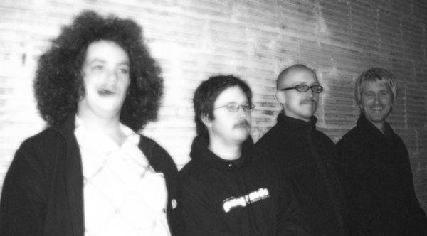 Optimus Rhyme, taken from the Freddy Mercury AIDS benefit show. All the band members grew mustaches for the event.